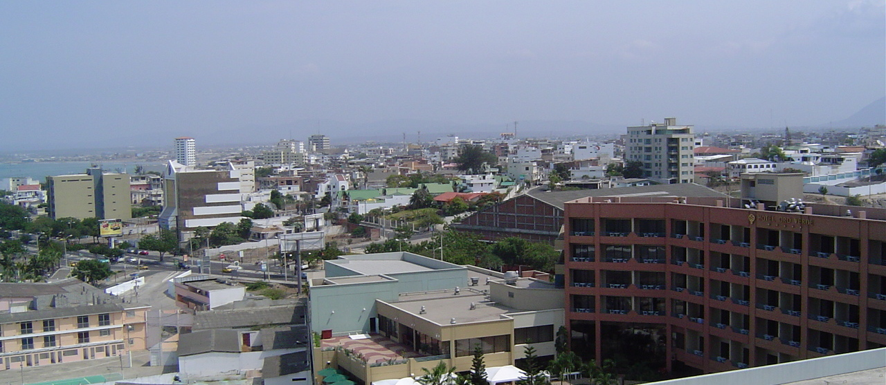 A view of one of Manta's modern districts.